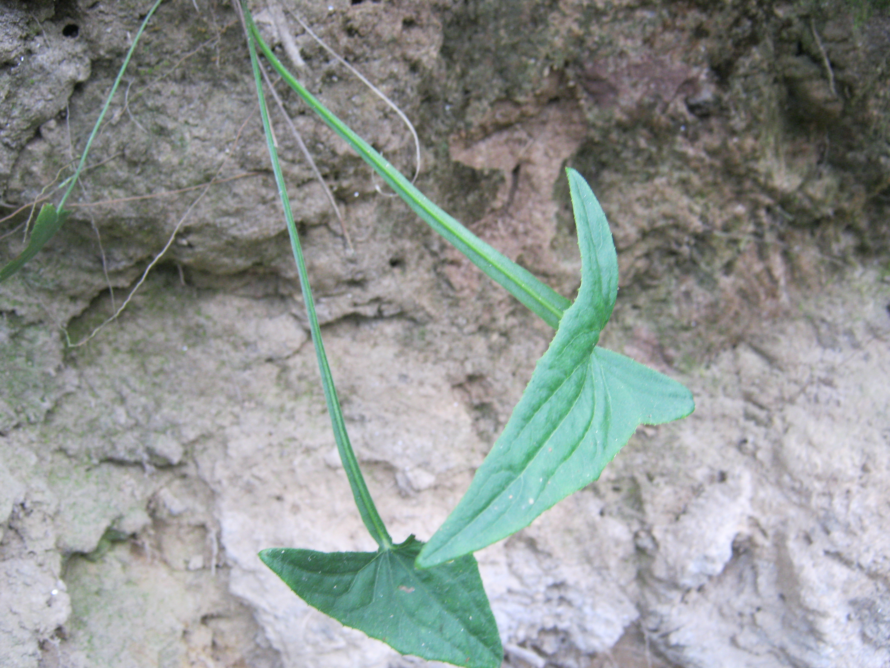 Also known as Mushakkarni (Sanskrit) or Sartapre. A medicinal herb found in Panchkhal VDC, Nepal.